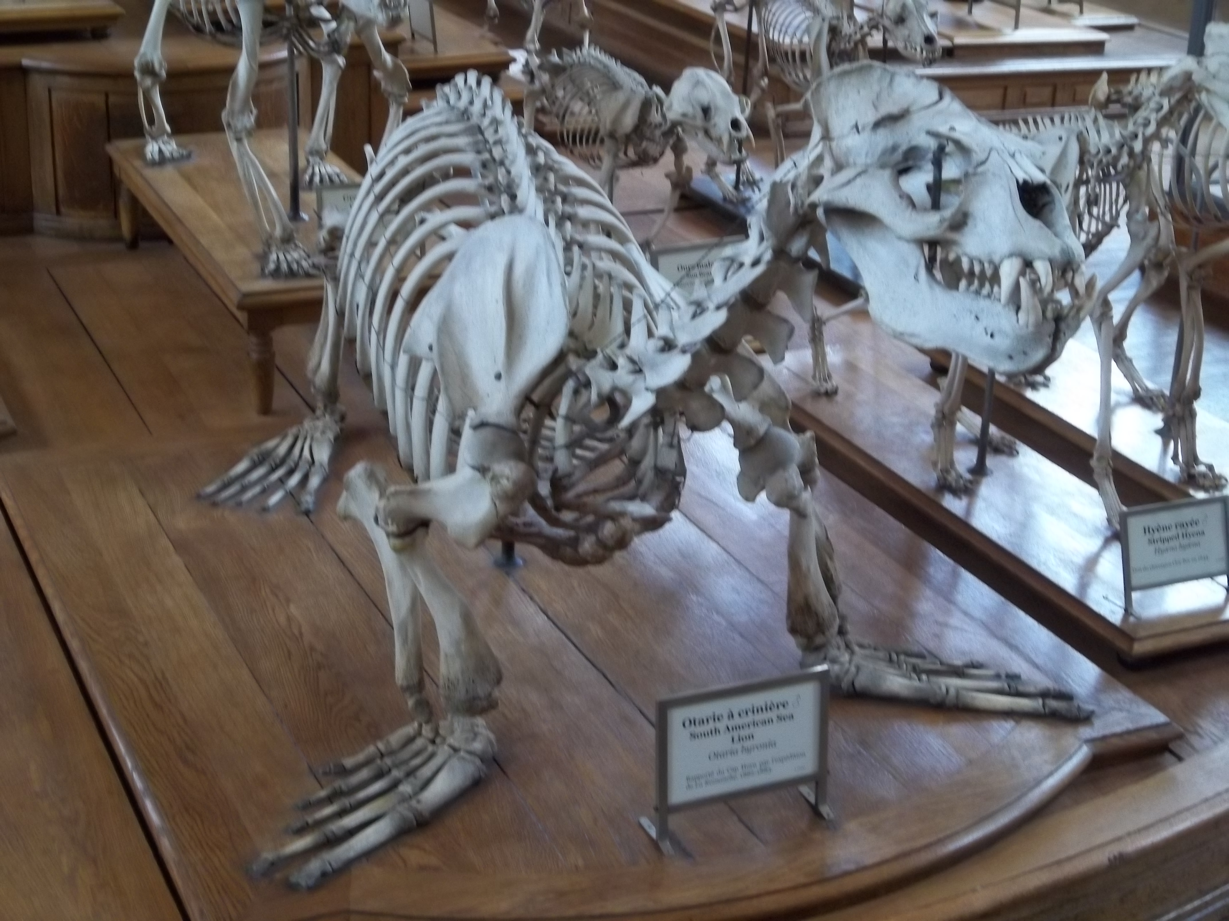 South American Sea Lion skeleton in the MNHN (Paris)